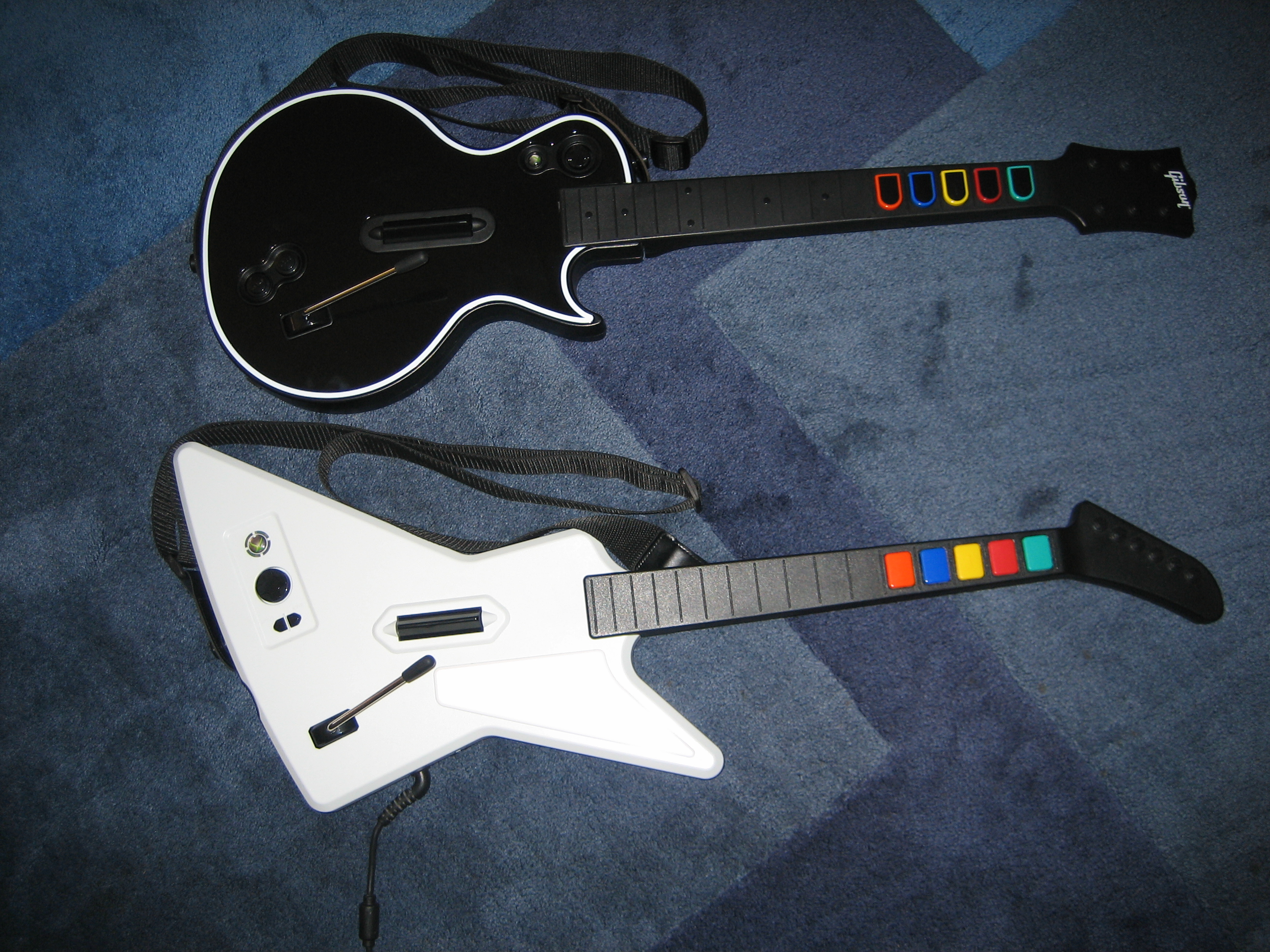 The Guitar Hero 2 Gibson X-Plorer and the Guitar Hero 3 Gibson Les Paul controllers for the Xbox 360